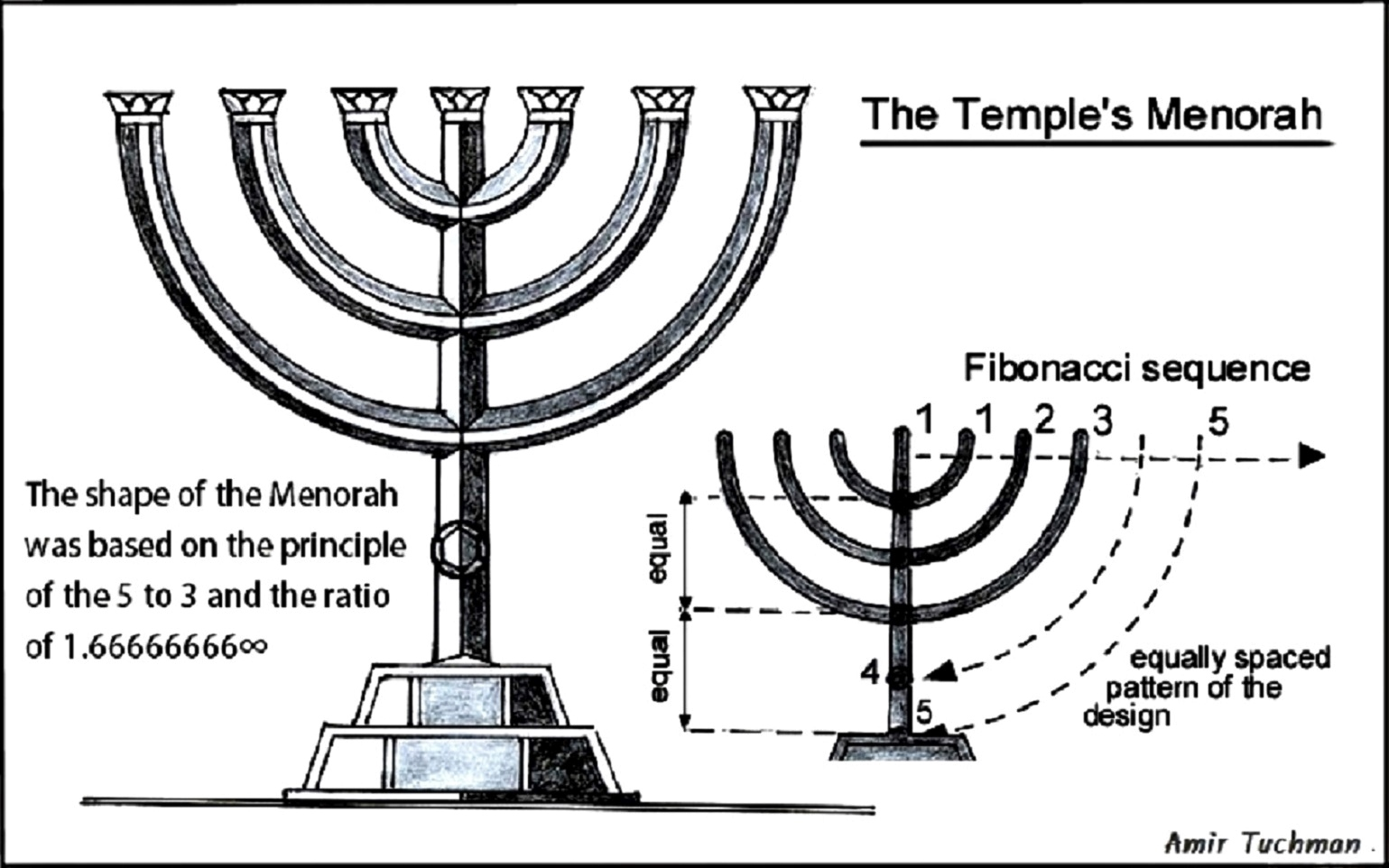 The Temple's Menorah